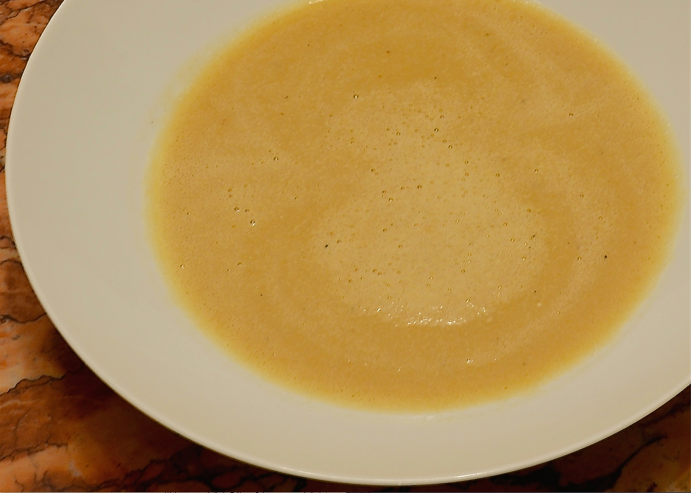 Bread soup with pureed brown bread, wine and cream from Vienna. Cooking recipe from Johann Werfring, published in „Wiener Zeitung“, 30 March 2018, Beilage „Wiener Journal“, p. 36–37, Online